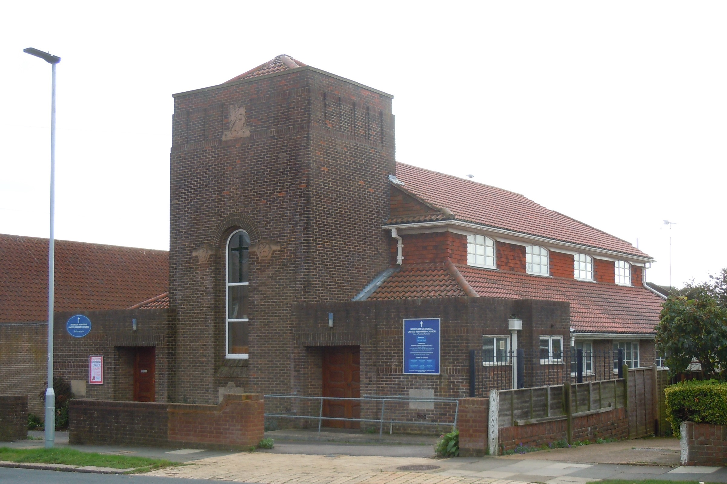 Hounsom Memorial United Reformed Church, Nevill Avenue, Hangleton, City of Brighton and Hove, England. A United Reformed church in the Hangleton area of Hove, designed by John Leopold Denman and opened in 1938.